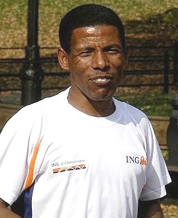 Gebrselassie, marathon record holder